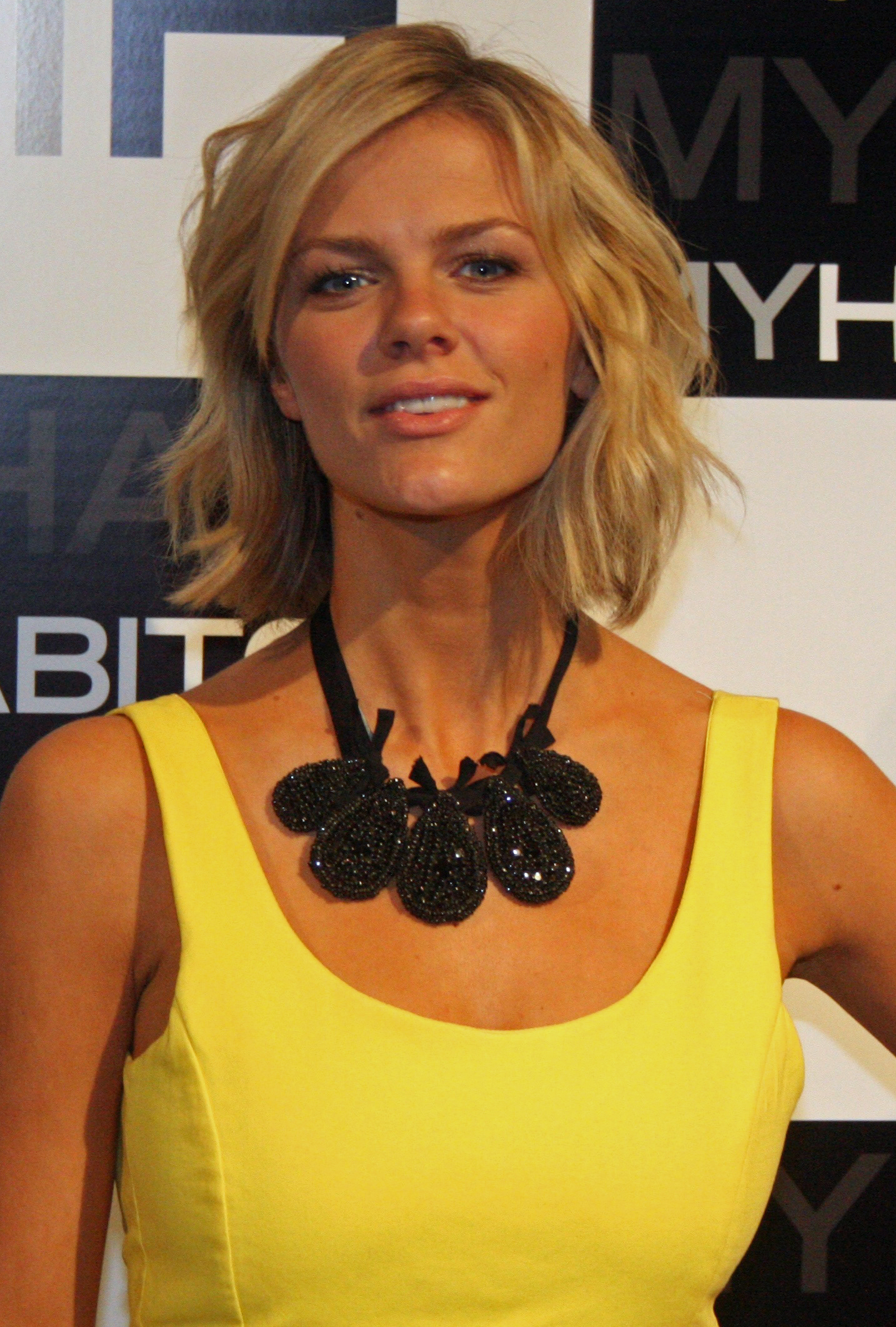 Brooklyn Decker at the My Habit launch at Skylight West Studios in May 2011.